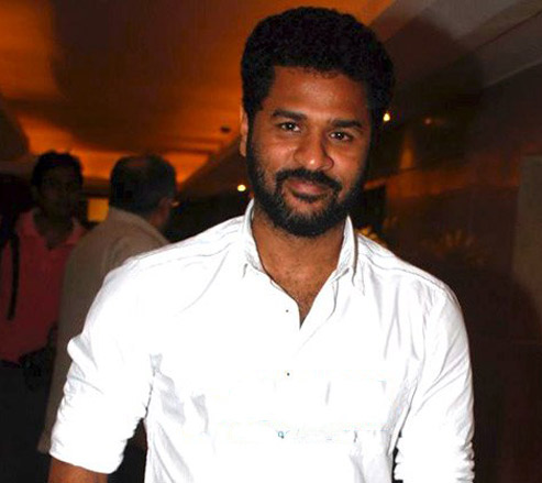 Prabhu Deva at Wanted press meet